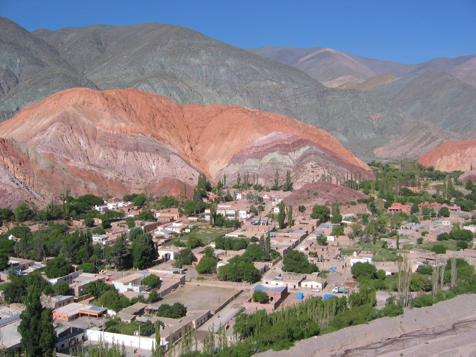 Cerro de los siete colores (seven-coloured hill) in Jujuy, Argentina.